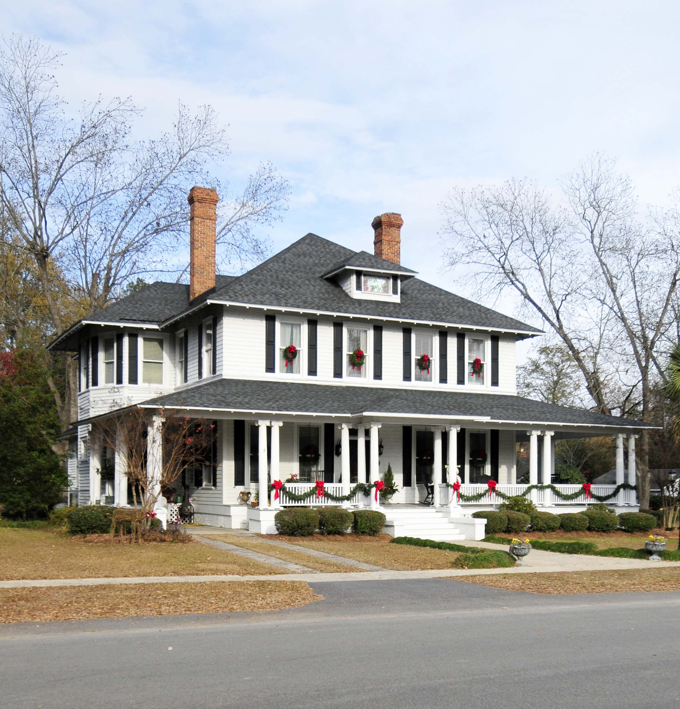 Home at 205 Bamberg Street in Latta Historic District 2, Dillon County, South Carolina